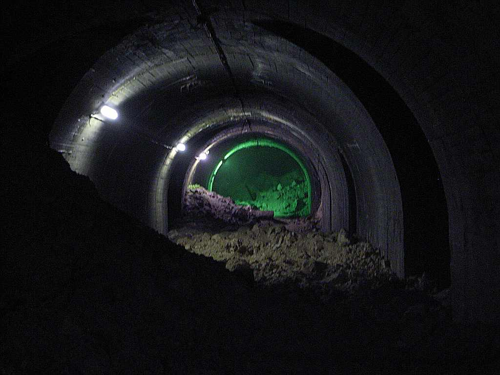 V3-Fortress Misoyecques (France)